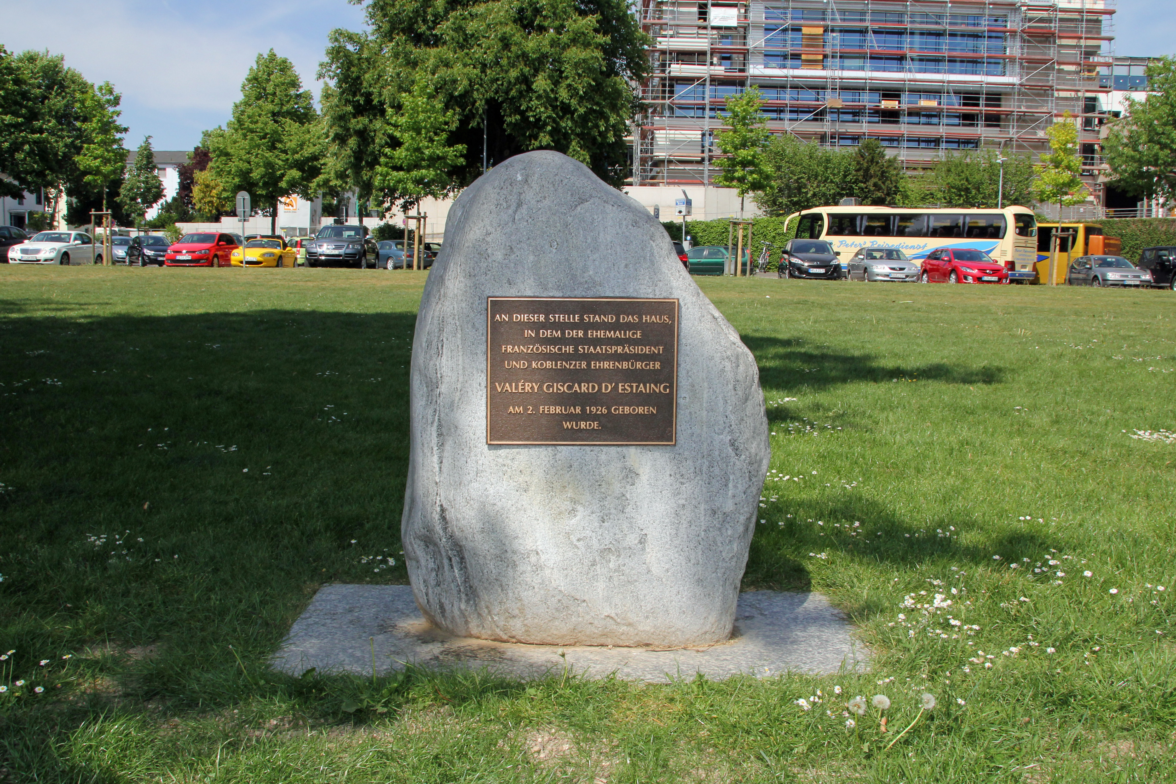 Rhine park in Koblenz